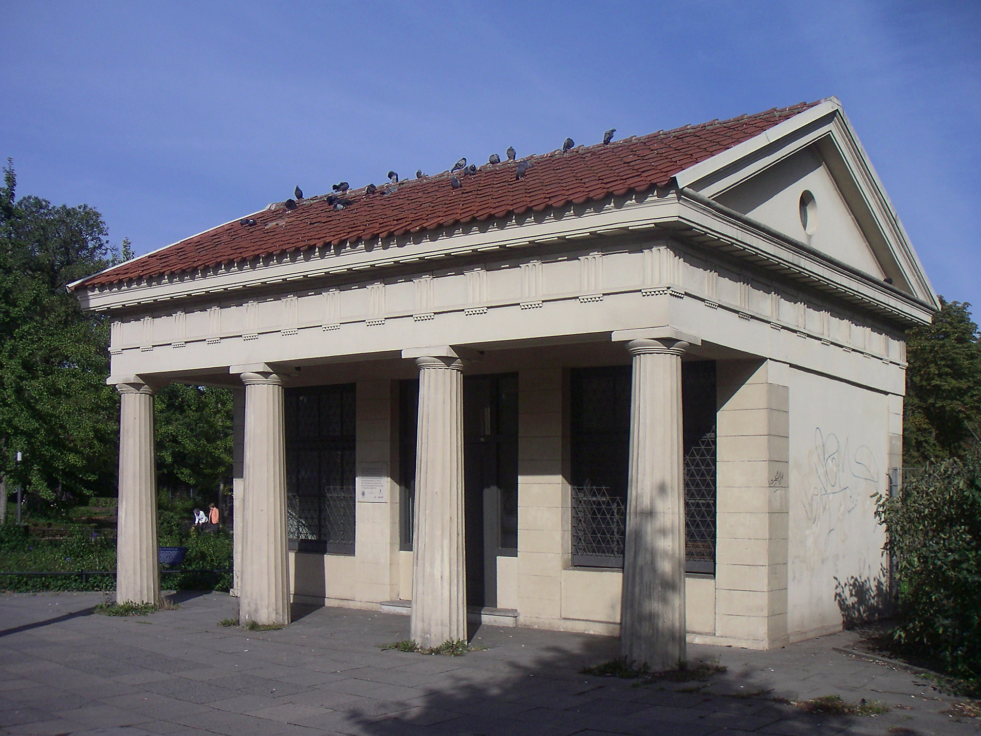 Hamburg, Millerntor, former guard house